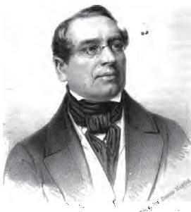 Cropped version of Rodbertus.JPG